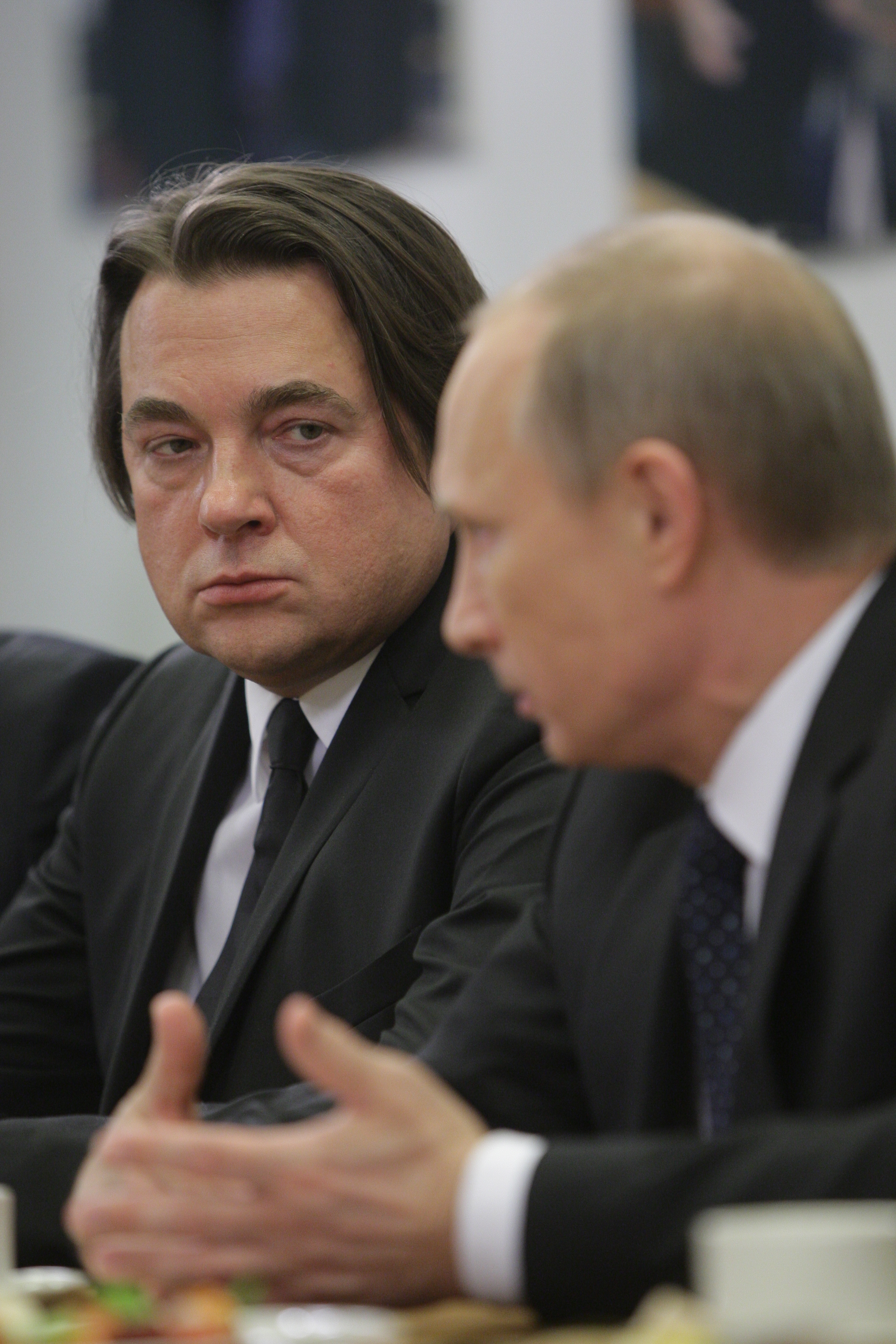 Prime Minister Vladimir Putin and Channel One Director General Konstantin Ernst